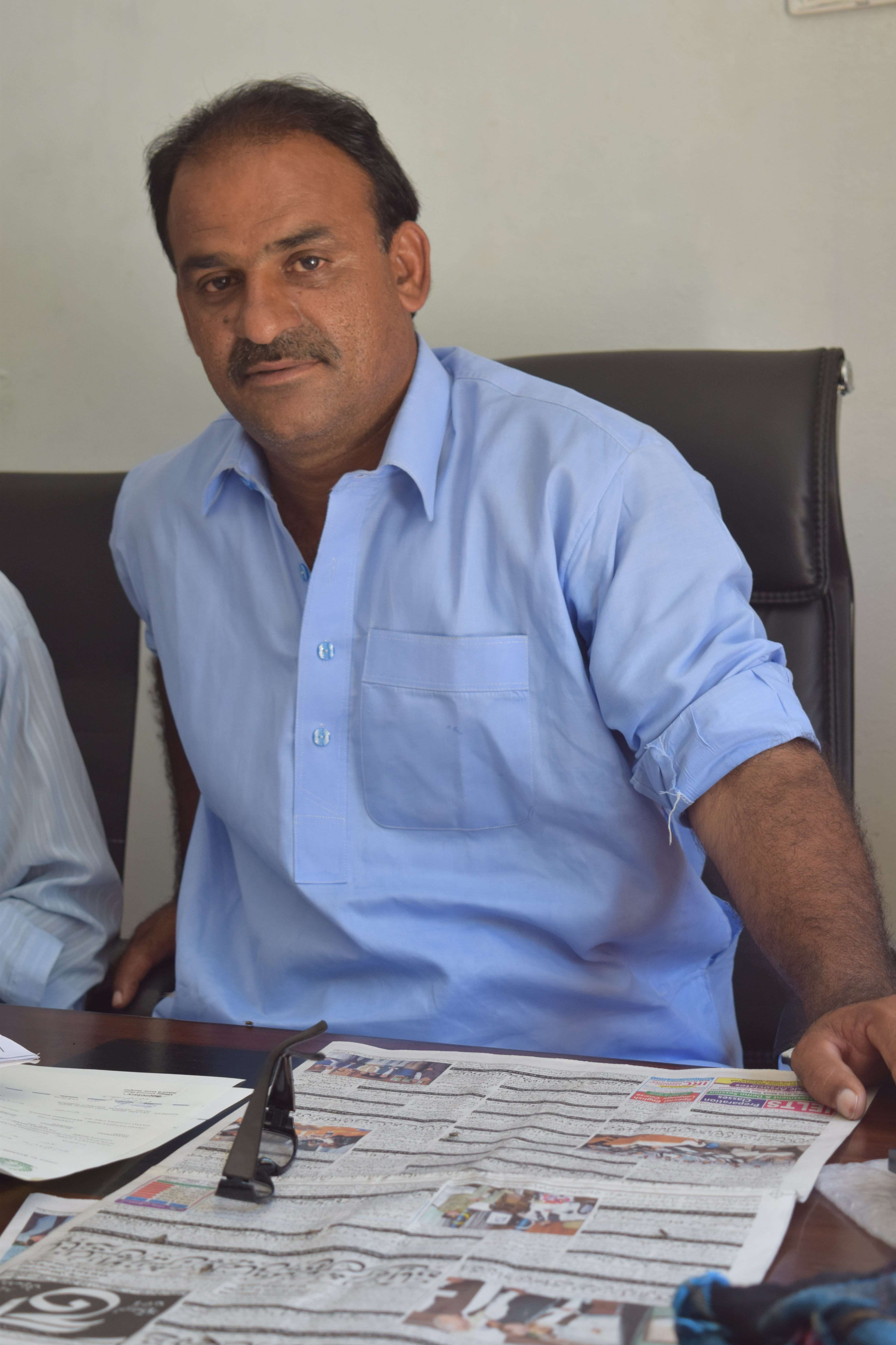 Raja Muhammad Nawaz, Nazim village council Beer, District Haripur, Pakistan.